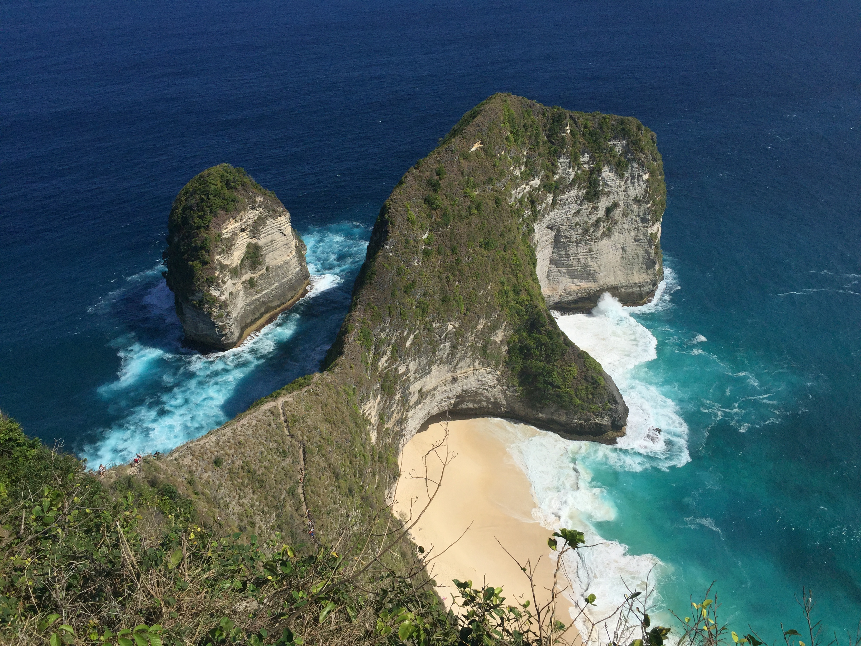 Located in Bunga Mekar Village, Sub-district of Nusa Penida in Klungklung, Bali, Kelingling beach is one of major international tourist attraction with all its unique features. By going down along a steep slope, visitors can bask themselves by swimming in this beautiful crystal clear white sandy beach.